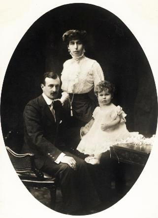 This photo of Grand Duke Kirill of Russia, Grand Duchess Victoria Melita ("Ducky"), and their daughter Marie was taken in about 1909 in Coburg and was printed on postcards prior to World War I. I found it listed in the public domain category on the Catalan Wikipedia site. Because of the date the photo was taken, I think it is most likely in the public domain in the United States. If I am mistaken for any reason, please delete the photo immediately.